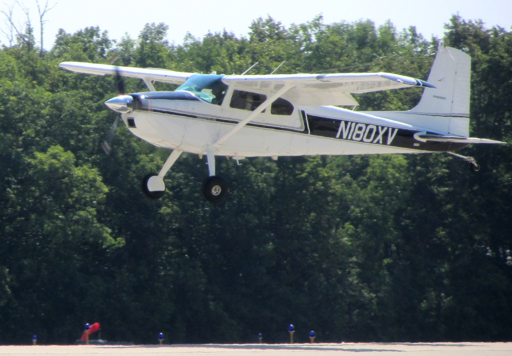 1961 Cessna 180D